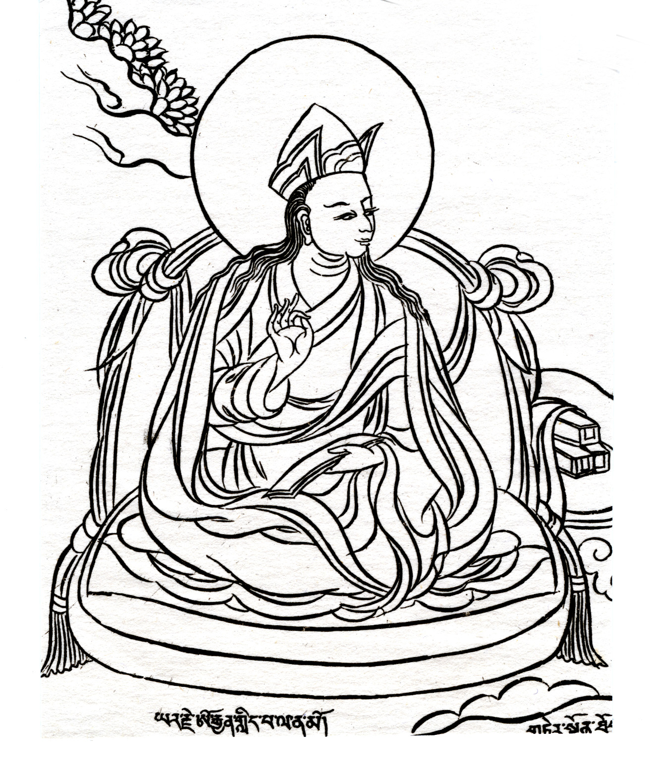 Orgyen Lingpa, 14th Century Nyingma Terton, Tibet